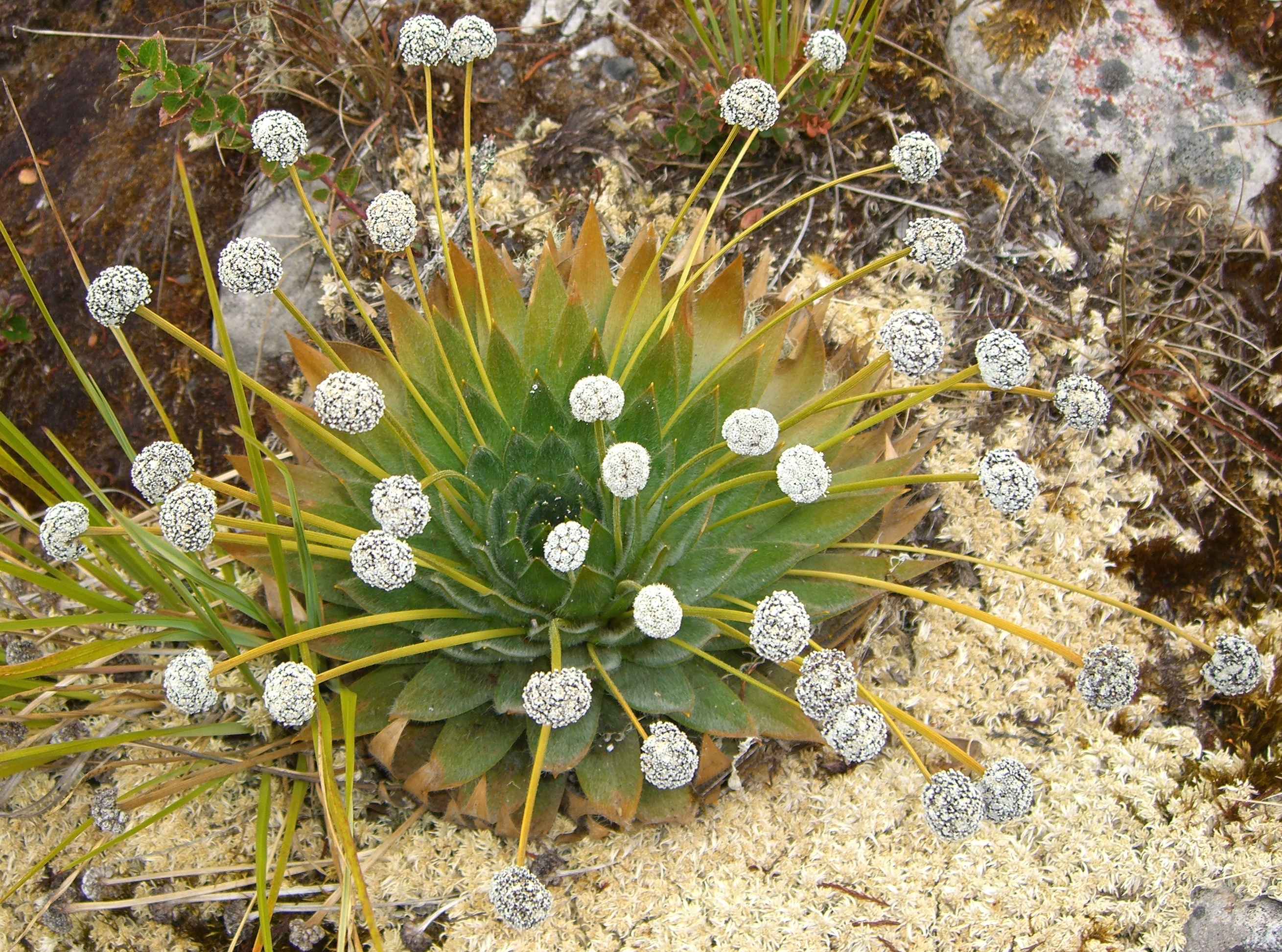 Please report references to . Detail of Paepalanthus alpinus. Location: NPP Chingaza